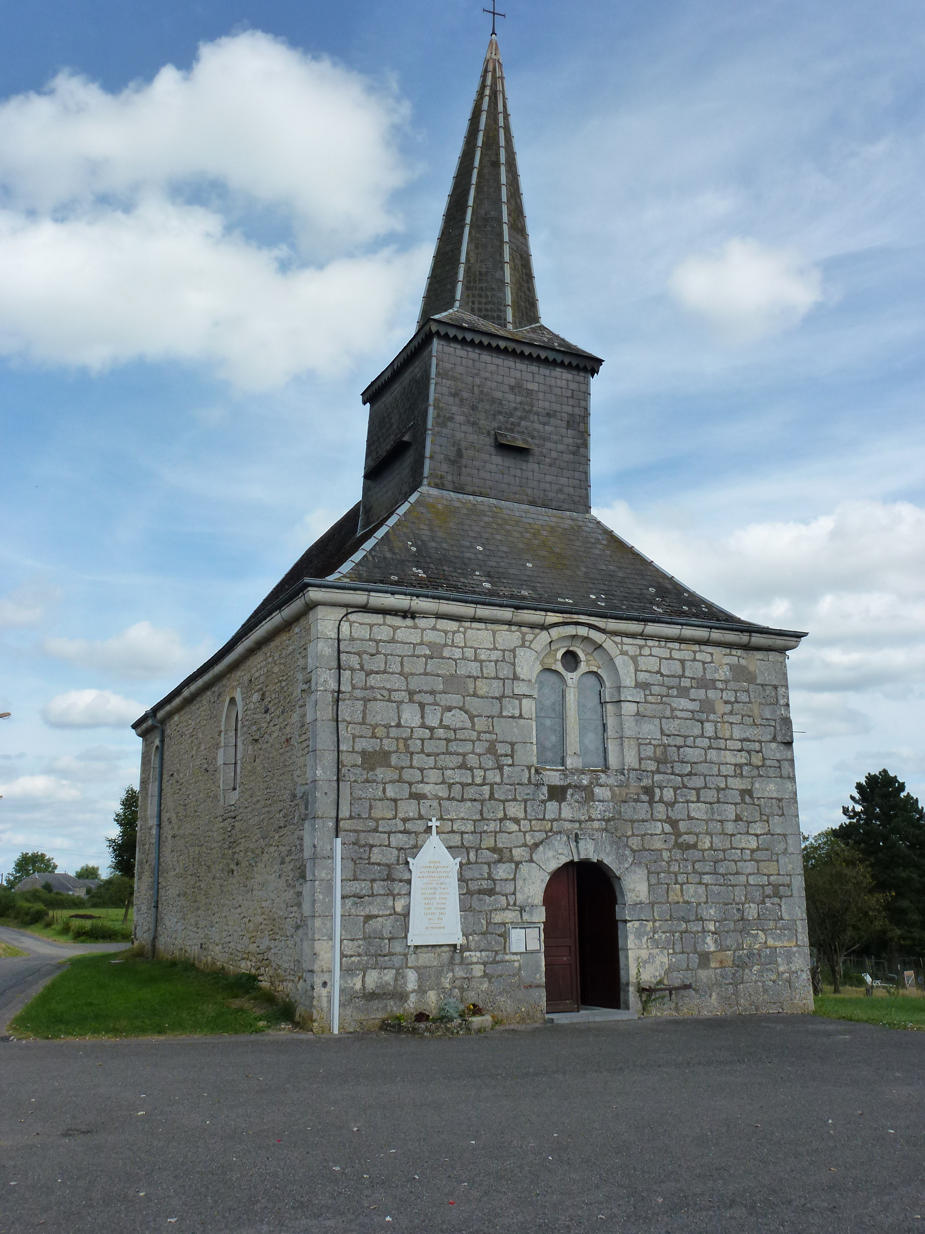 Auge (Ardennes) Église Saint-Gorgery